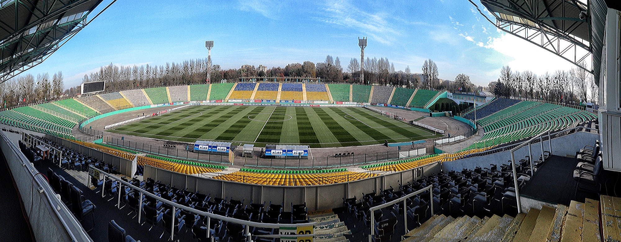 Ukraina Stadium in Lviv, Ukraine